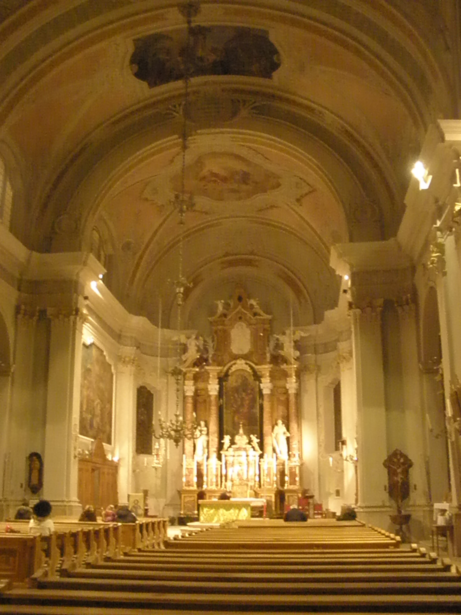 SS Philip and Jacob parish church, in Cortina d'Ampezzo, Italy.